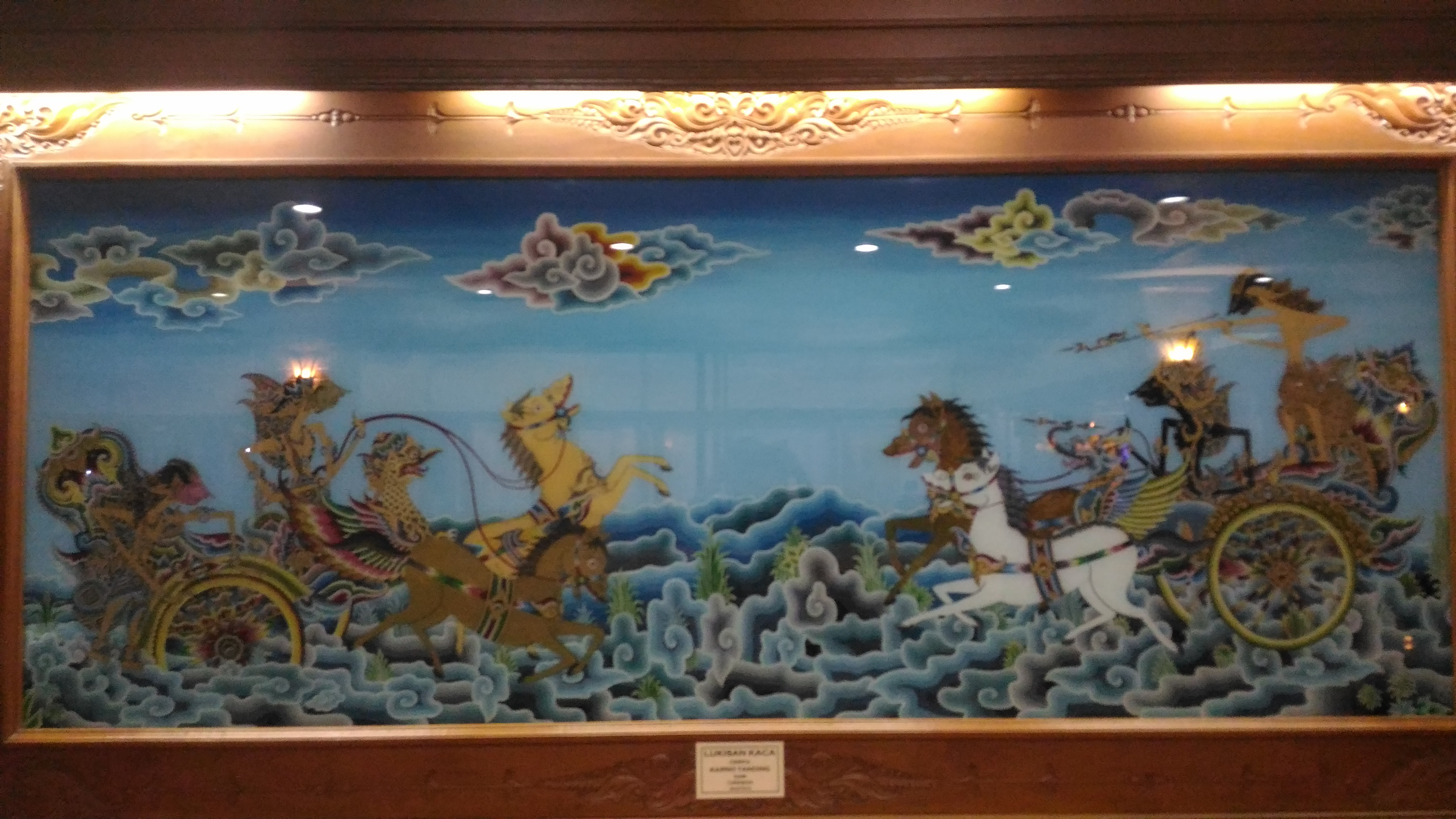 The Fighting of Karna by Rastika, Cirebon glass painting. Collection of Gedung Pewayangan Kautaman, Taman Mini Indonesia Indah, Jakarta.